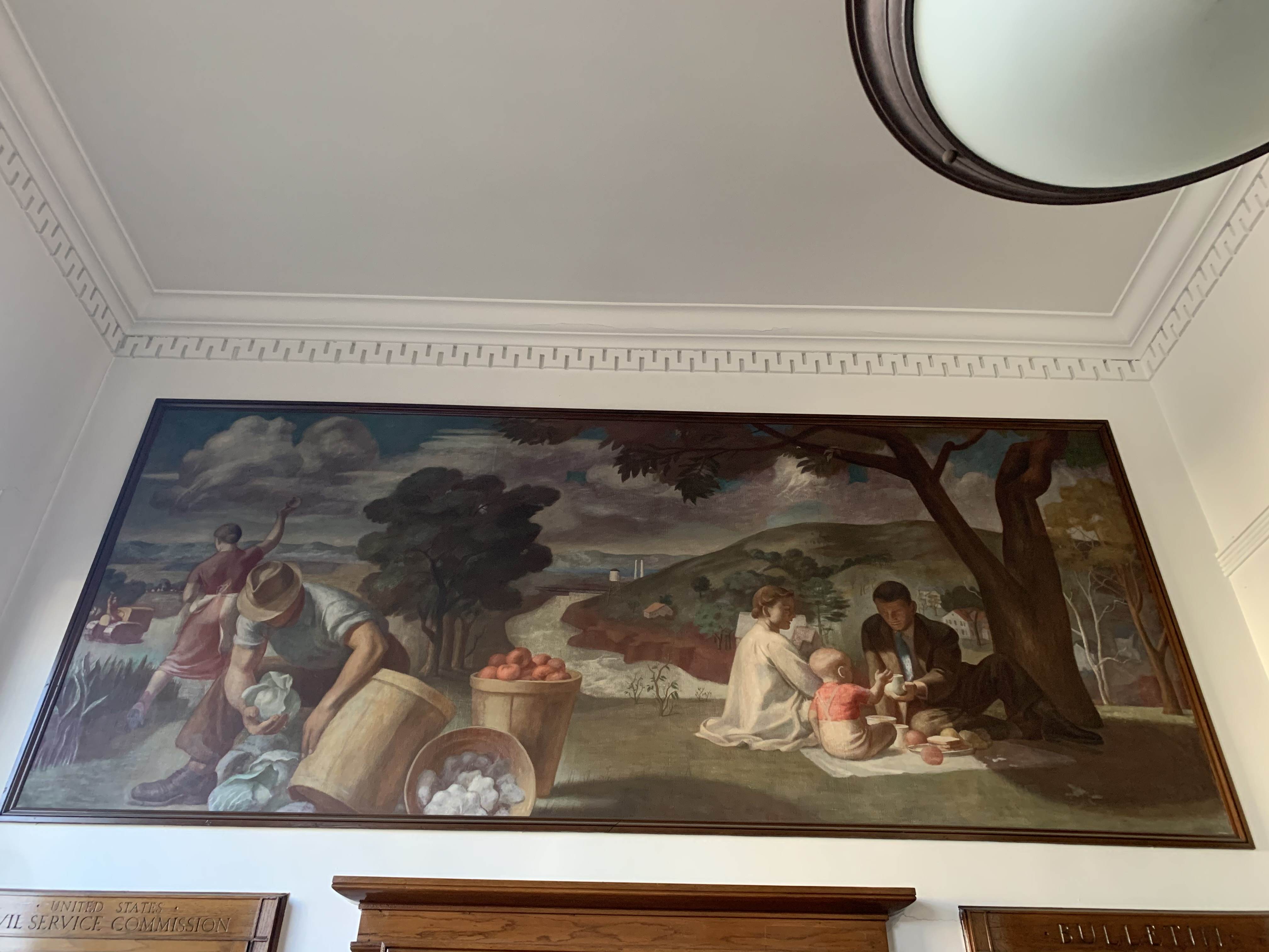 WPA era mural commissioned by the US Department of the Treasury's Section of Fine Arts.